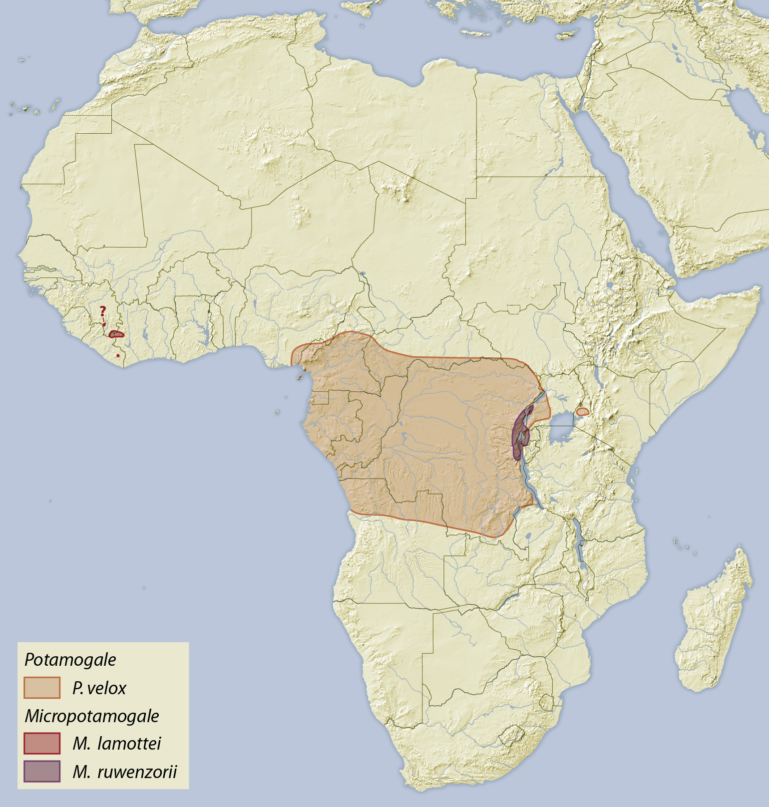 Distribution map of the Potamogalidae